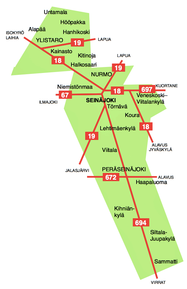 Main roads and villages of Seinäjoki, Ostrobothnia, Western Finland.